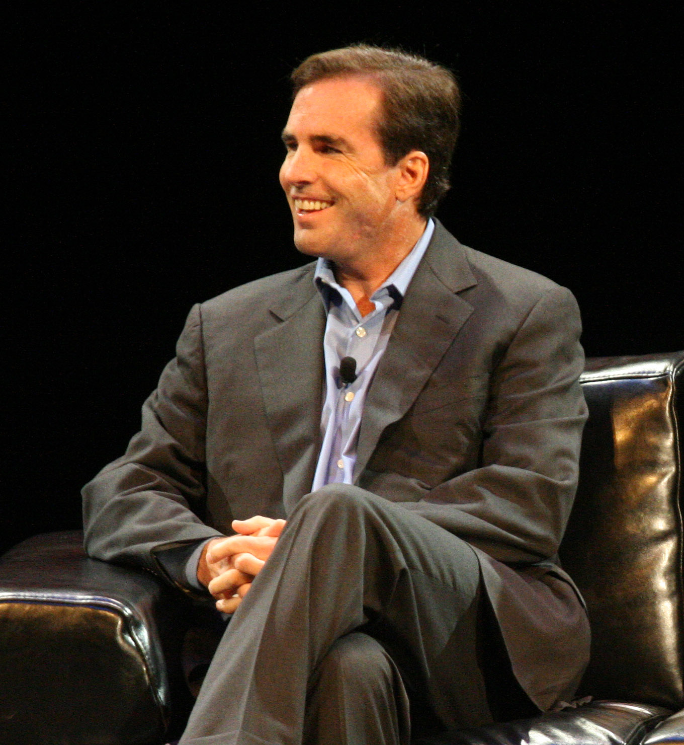 ABC reporter Bob Woodruff